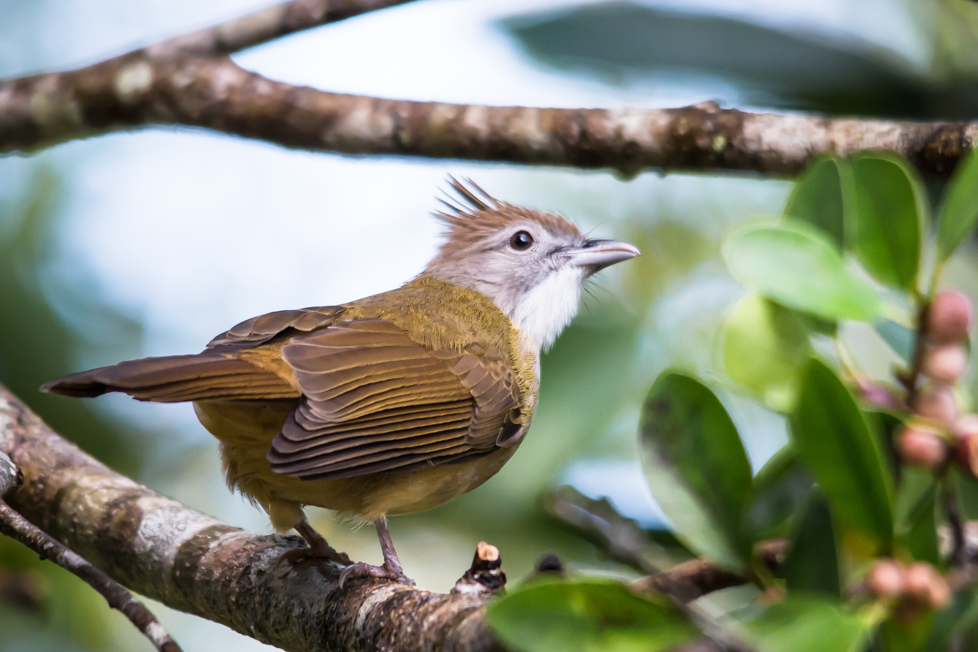 The Puff-throatd Bulbul (Alophoixus pallidus), Pha Kluai Mai Camp Site / Khao Yai National Park / Thailand